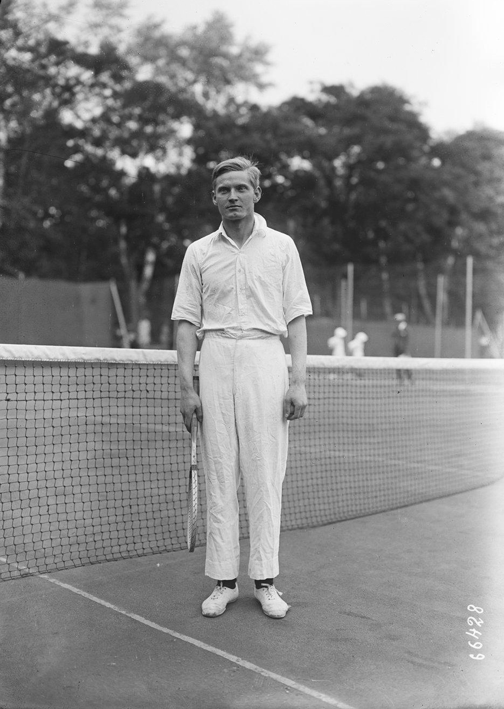 Danish tennis player Erik Tegner at the 1921 World Hard Court Championships in Paris.